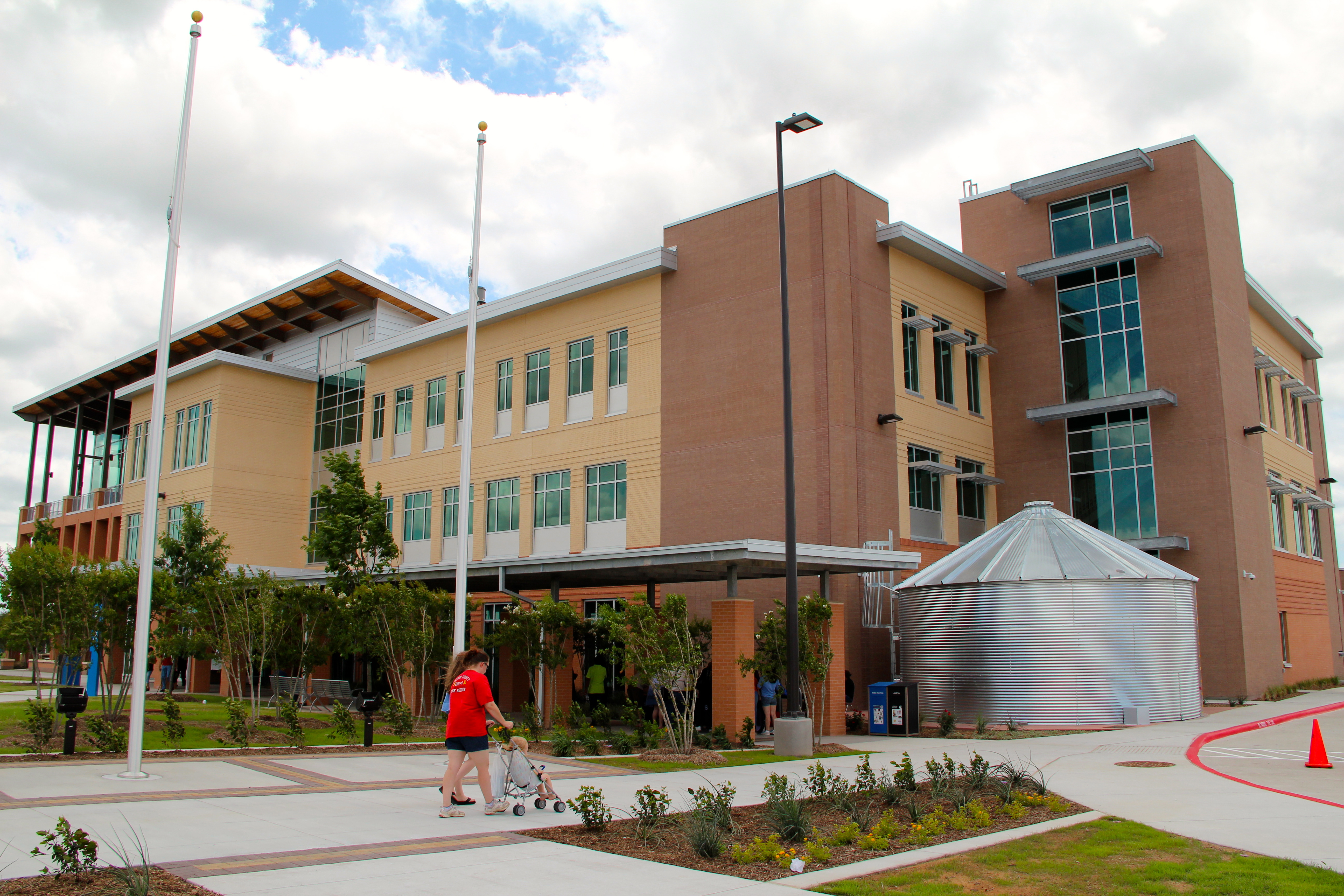 Austin Community College campus building, Austin, TX in 2013.